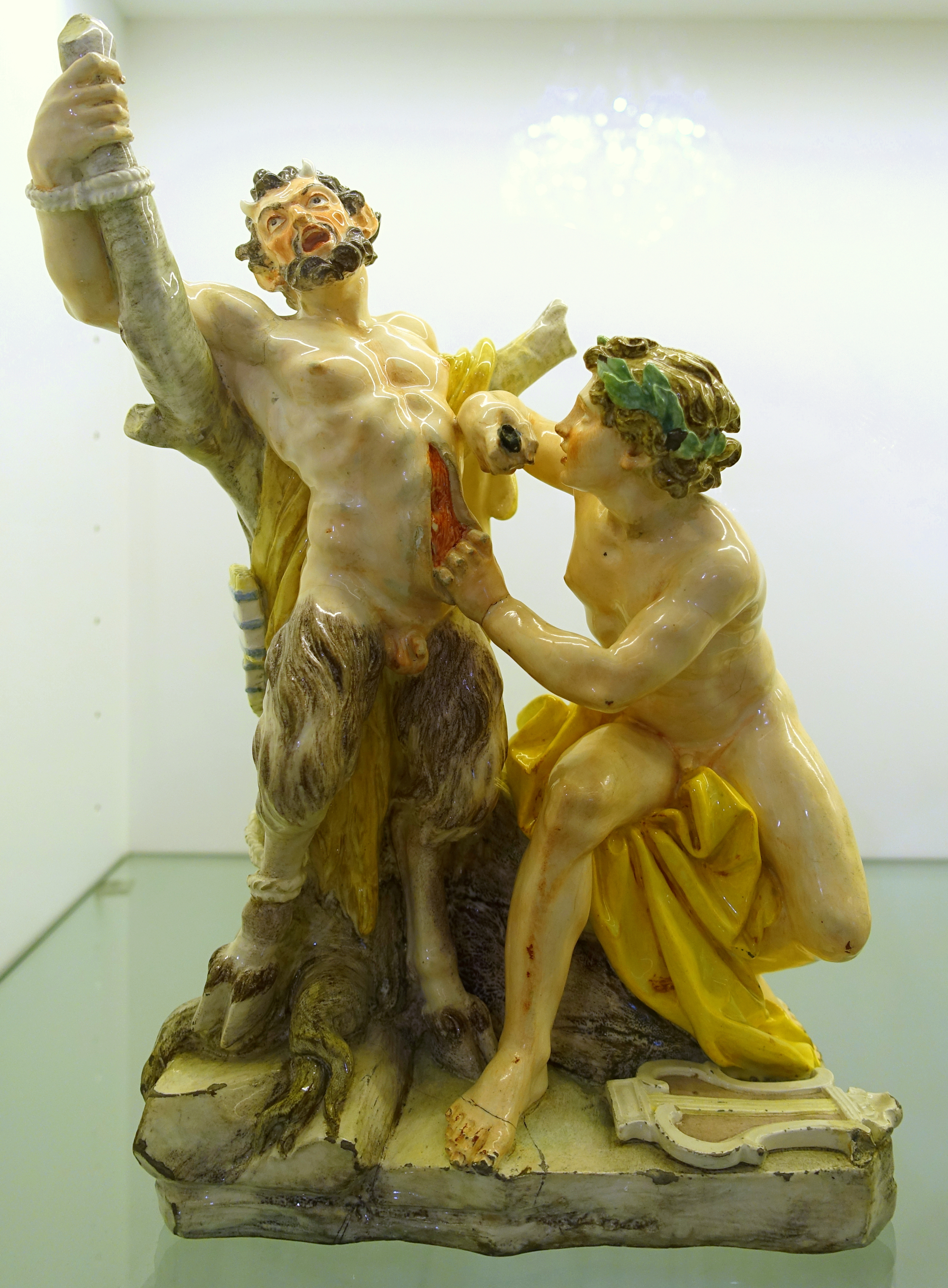 Item #CE26540, "Marsyas and Apollo", Real Fábrica del Buen Retiro, c. 1770. Exhibit in the Museo Nacional de Artes Decorativas, Madrid, Spain. These works are in the public domain because the artists died more than 100 years ago.